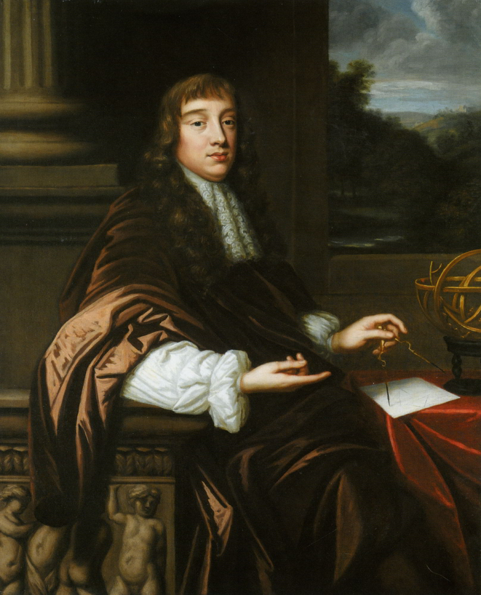 The subject of this painting, previously held to be unknown by consensus, is being discussed as a portrait of famous scientist Robert Hooke (discoverer of biological cells). It is argued by Prof. Larry Griffing that knowledge of the identify of the sitter was suppressed by Isaac Newton's influence as Hooke's theories might claim precedence to Newton's.